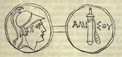 Dictionary of Greek and Roman geography (1870) Author: Smith, William, (Sir) 1813-1893 Volume: 1 Subject: Geography, Ancient -- Dictionaries; Classical geography -- Dictionaries Publisher: Boston : Little, Brown Possible copyright status: NOT_IN_COPYRIGHT Language: English Call number: AAC-3254 Digitizing sponsor: MSN Book contributor: Robarts - University of Toronto Collection: toronto